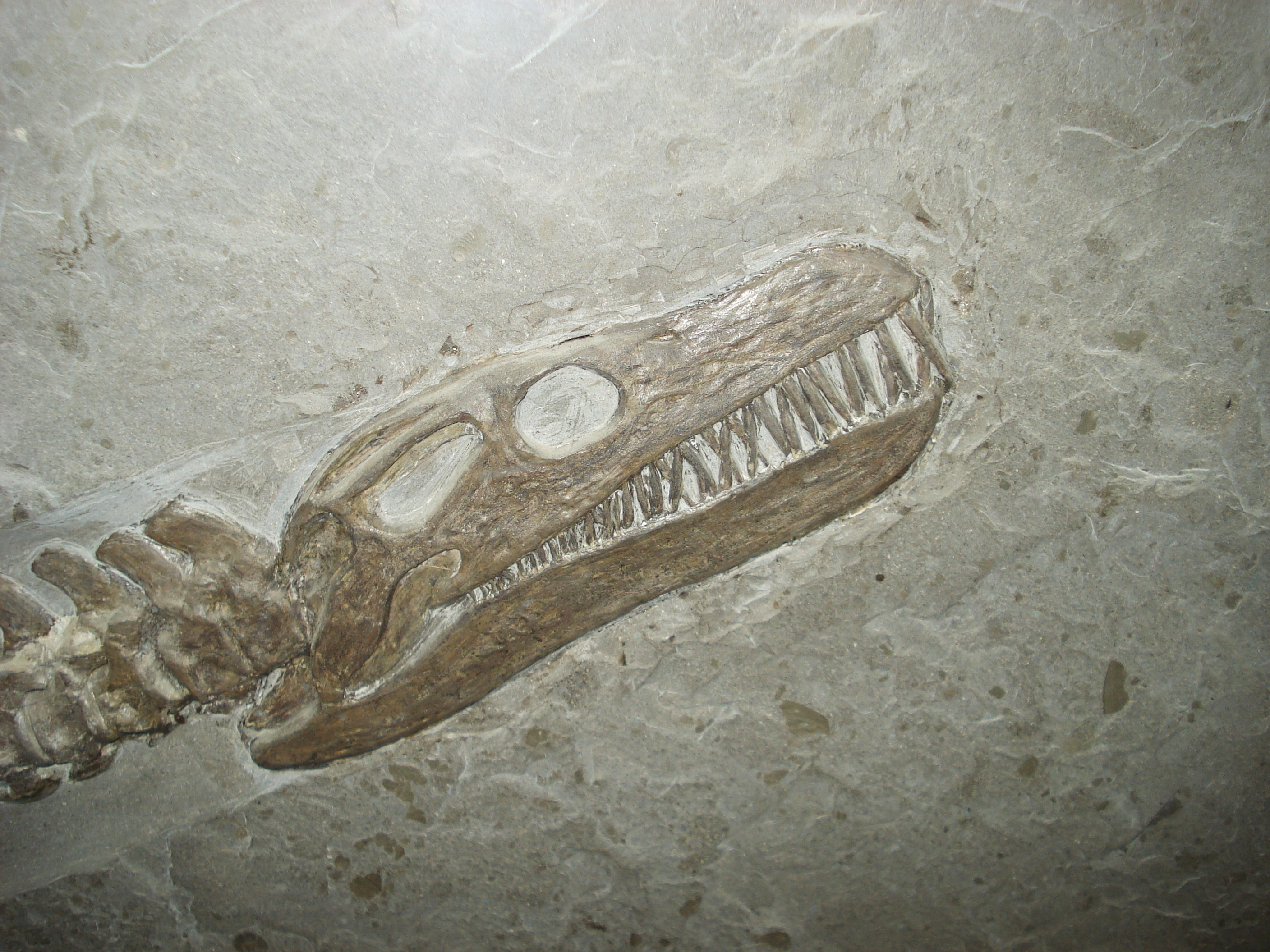 fossil of hydrorion